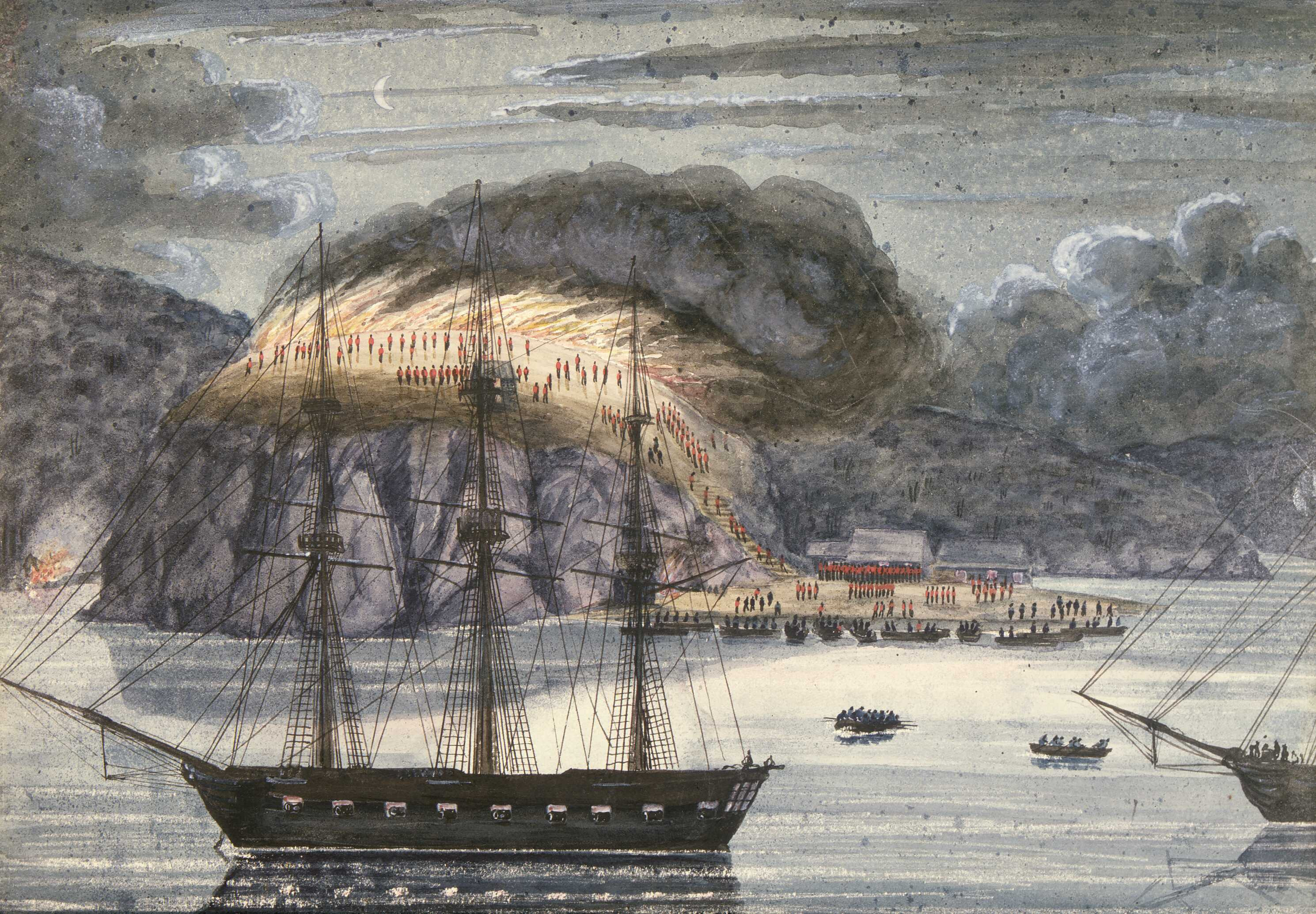 H M S North Star, destroying Pōmare's pa, Otiuhu, Bay of Islands, New Zealand (1845). H. M. S. North Star in the foreground with sails furled. Small boats and soldiers landing on a flat area with houses in the background. A high hill with further soldiers silhouetted against flames and black smoke. The scene is lit by moonlight. During its time in New Zealand waters, the H. M. S. "North Star" was commanded by Sir Everard Home, Bart. Inscribed - Recto - bottom right: Title [in ink in the hand of John Williams?]